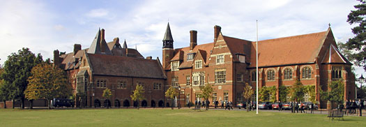 Abingdon School, Park Road, Abingdon, Oxfordshire, England.